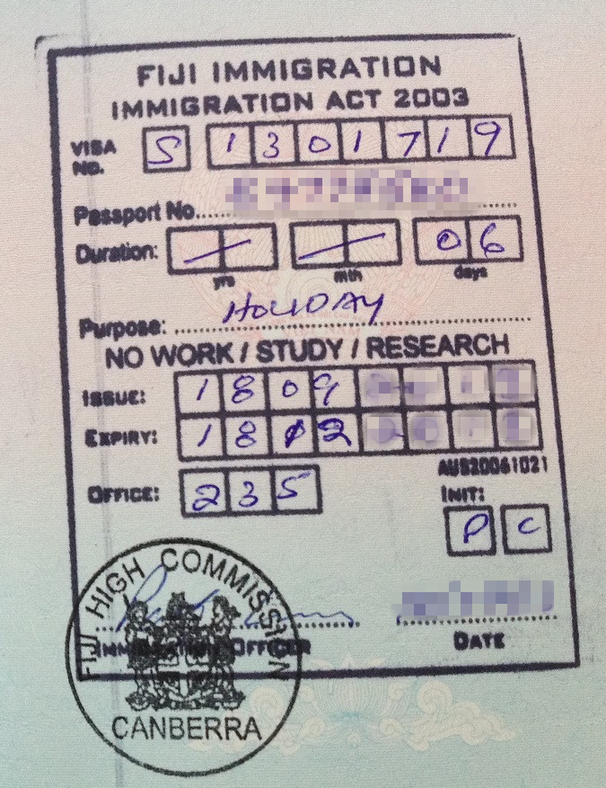 Fijian visa issued on a Vietnamese passport by Fijian High Commission in Canberra